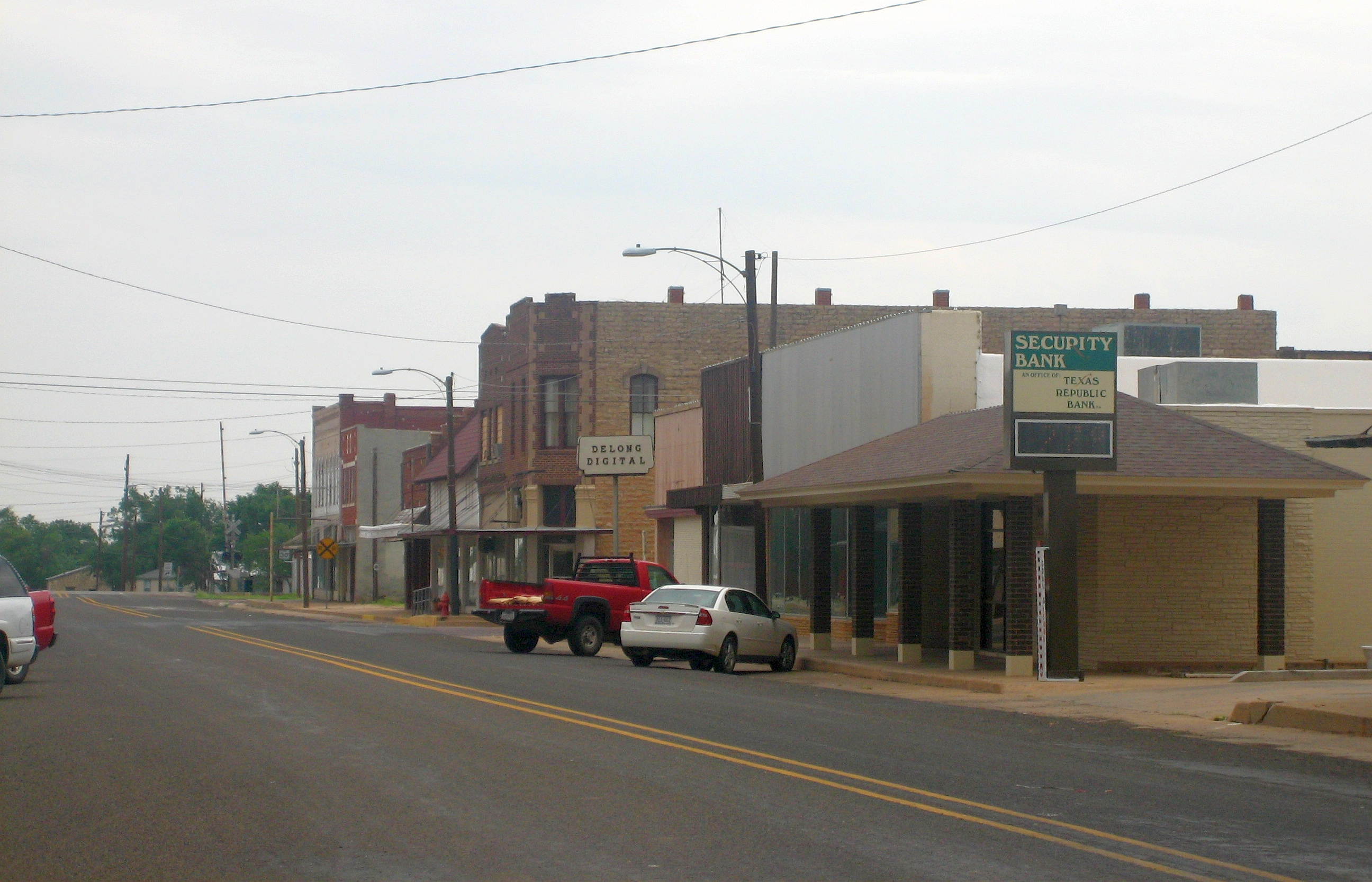 I took photo in July 2008.